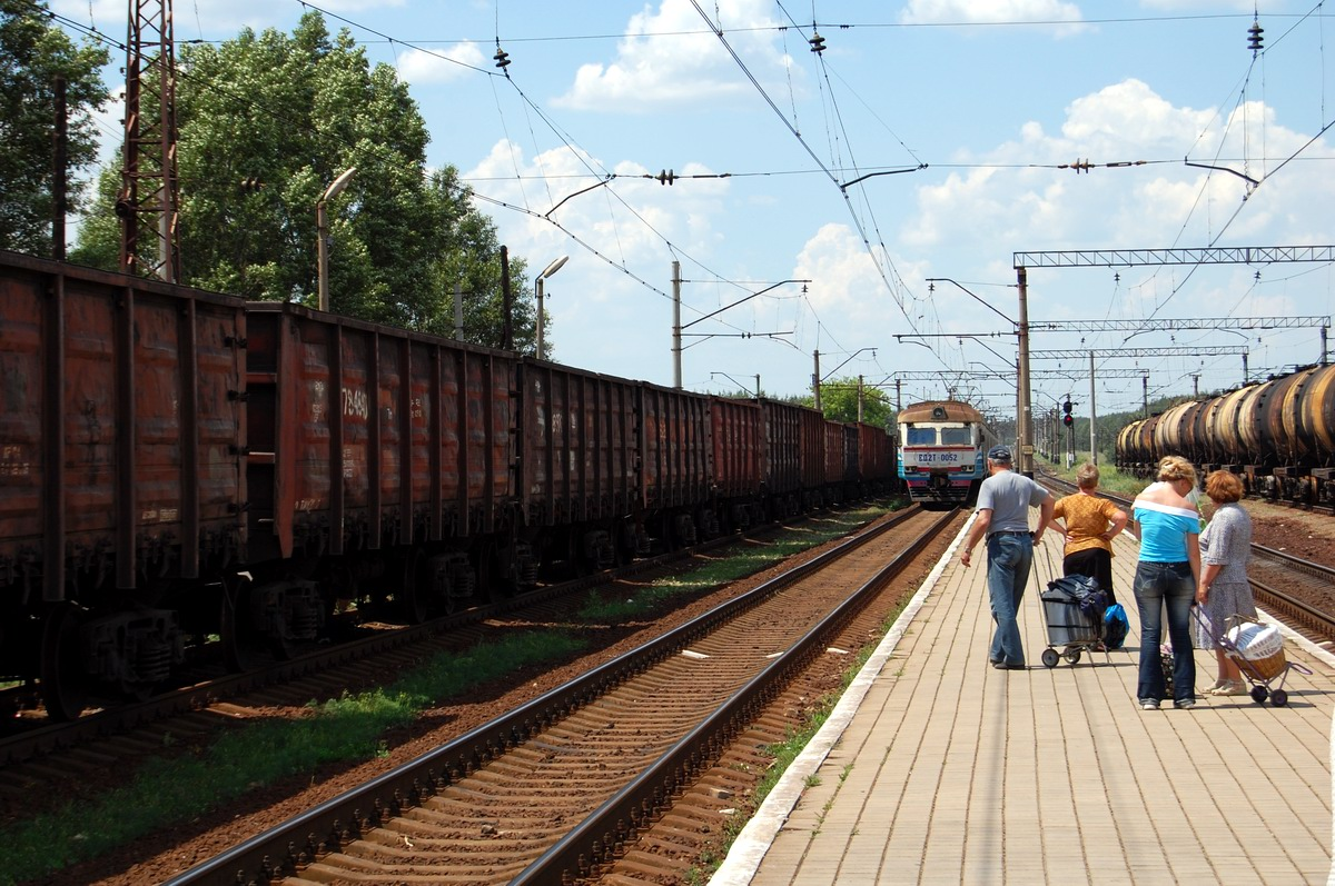 Peoples on the station Yampil, Donecka oblast', Ukraine waiting for electric train